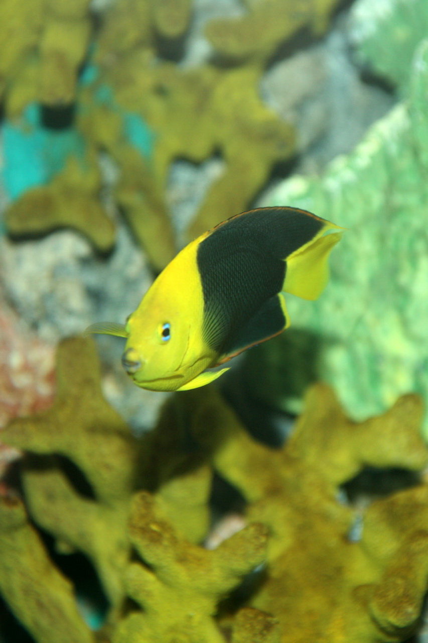 Rock Beauty Angelfish (Holacanthus tricolor)